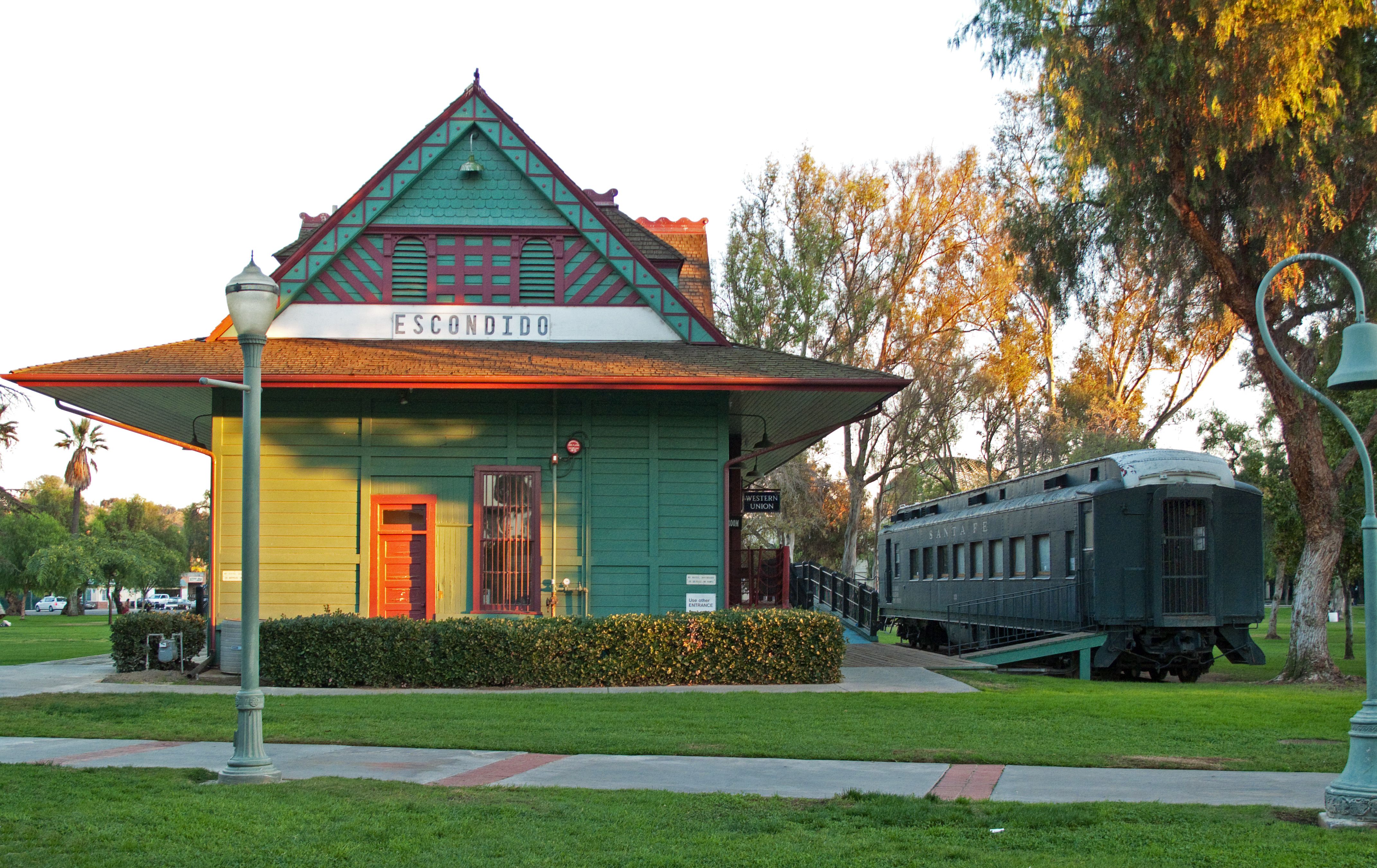 Santa Fe train station, Grape Day Park, Escondido, California.